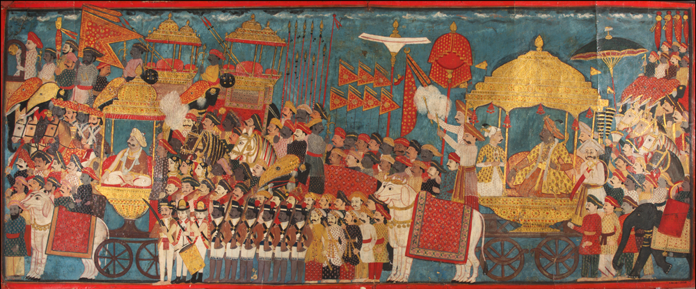 The pictures made by Indian artists for the British in India are called Company paintings. This one shows Amar Singh and Sarabhoji. The fact that Amar Singh is in the larger gilded carriage suggests that this painting was made before 1798, the year that the British pensioned him off and sent him away. Sarabhoji (shown here in the smaller carriage) was then recognised as ruler of the state.